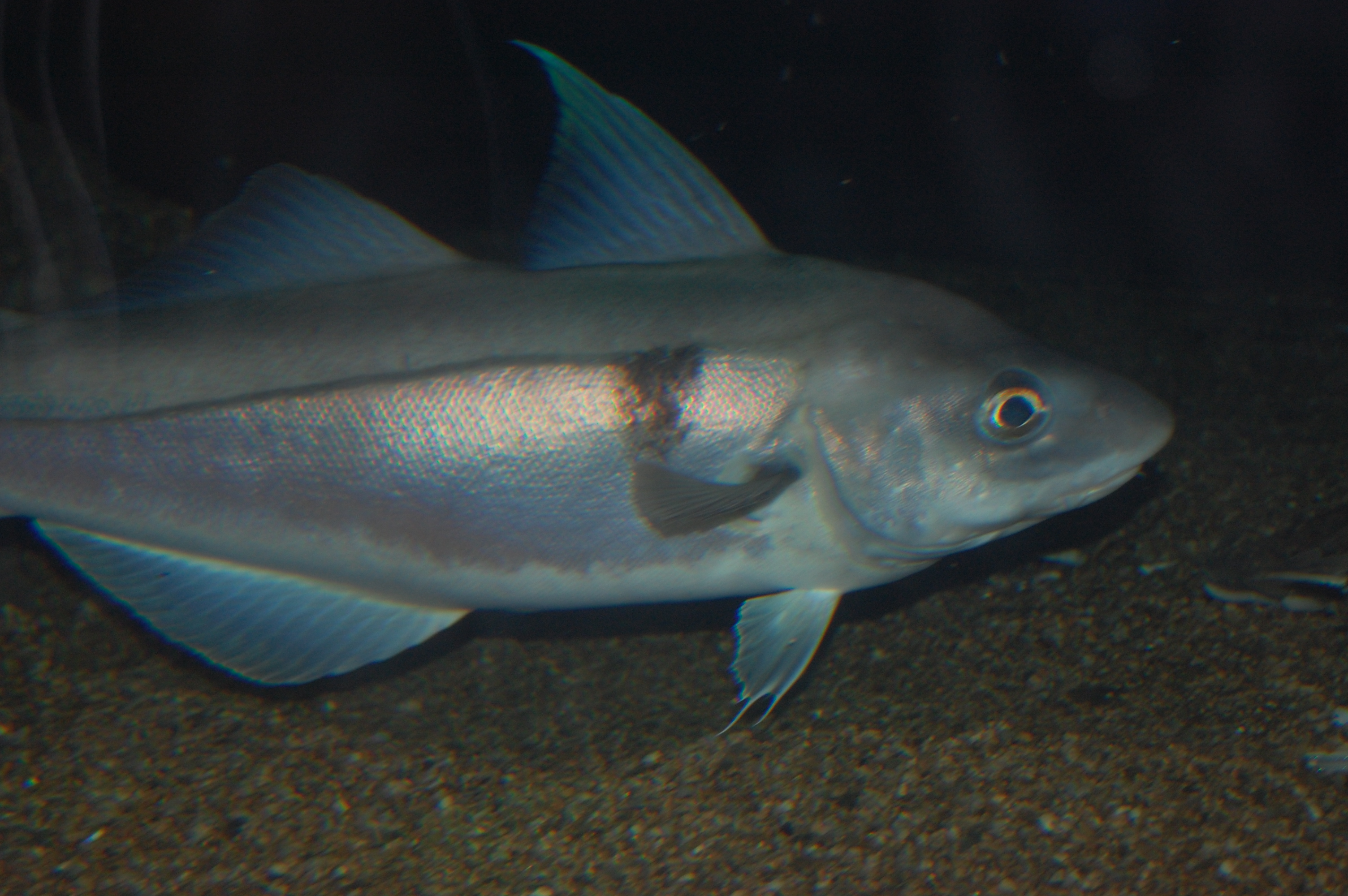 Haddock (Melanogrammus aeglefinus) at the New England Aquarium, Boston MA.